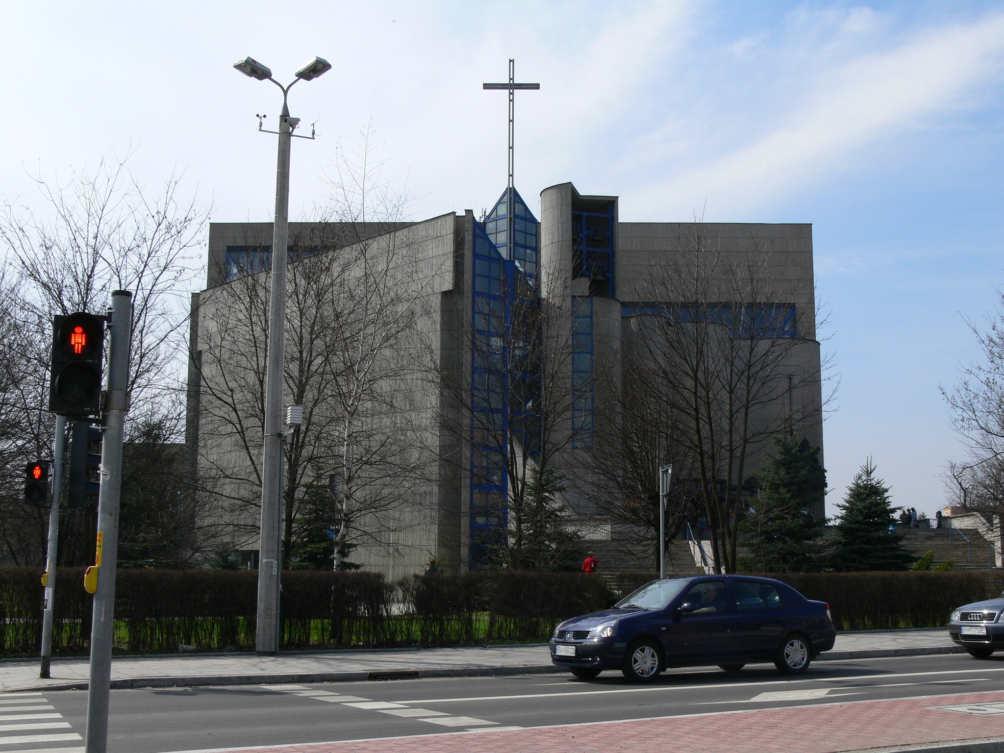 Church in Krowodrza Górka, Kraków, Poland